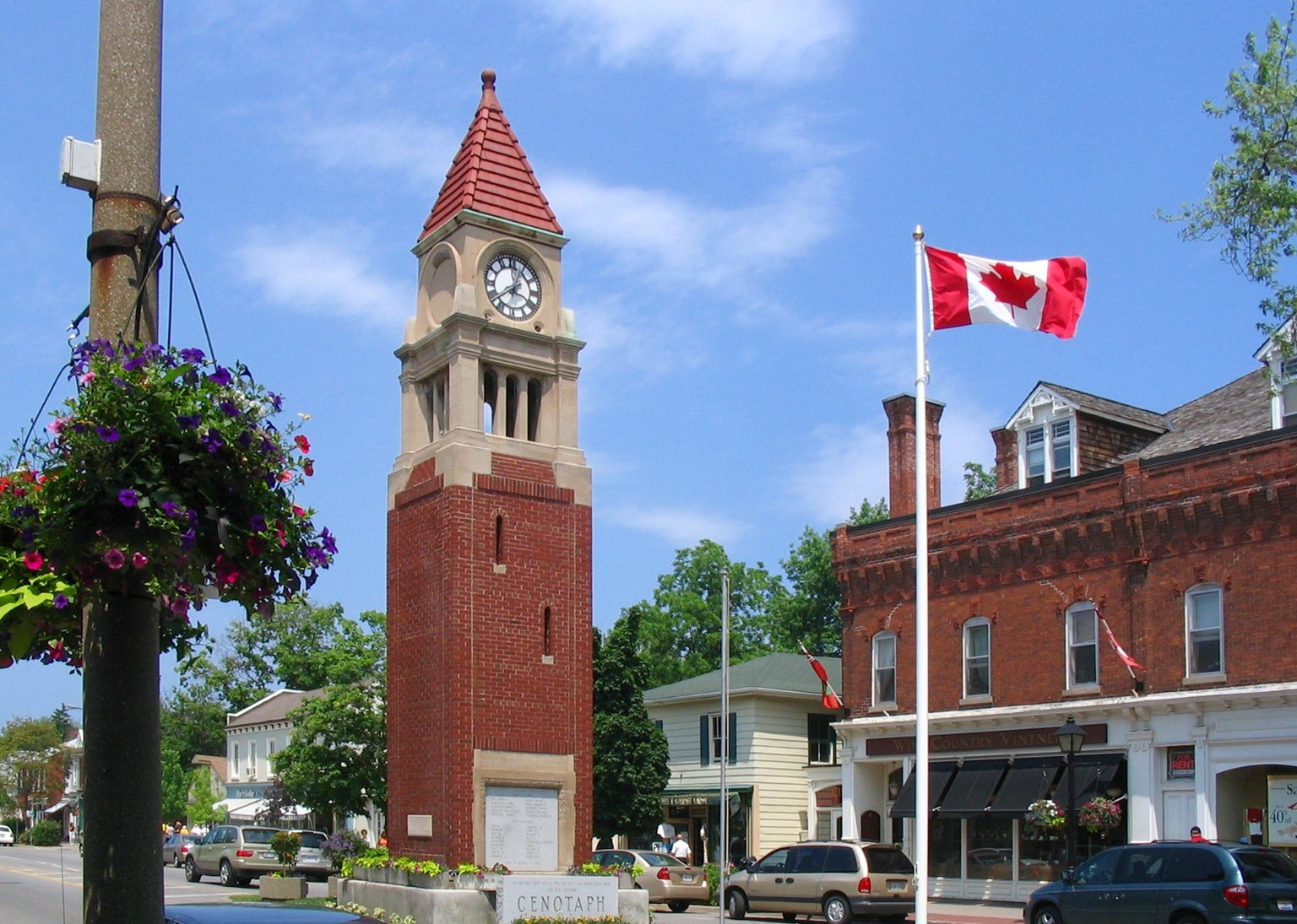 Niagara-on-the-Lake cenotaph and clock tower.